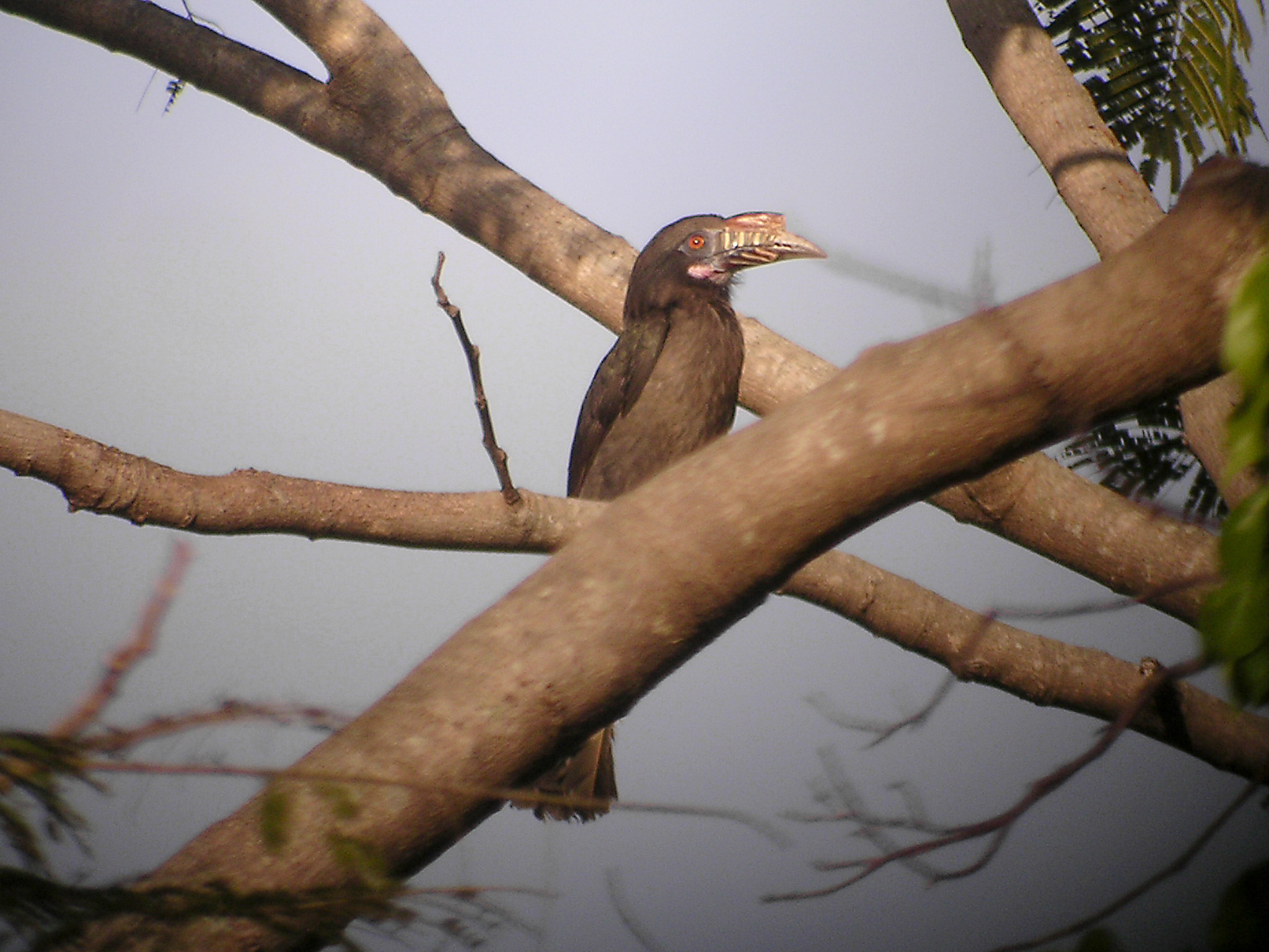 Luzon Tarictic Hornbill (also known as the Luzon Hornbill) at Subic Bay, Luzon, Philippines.